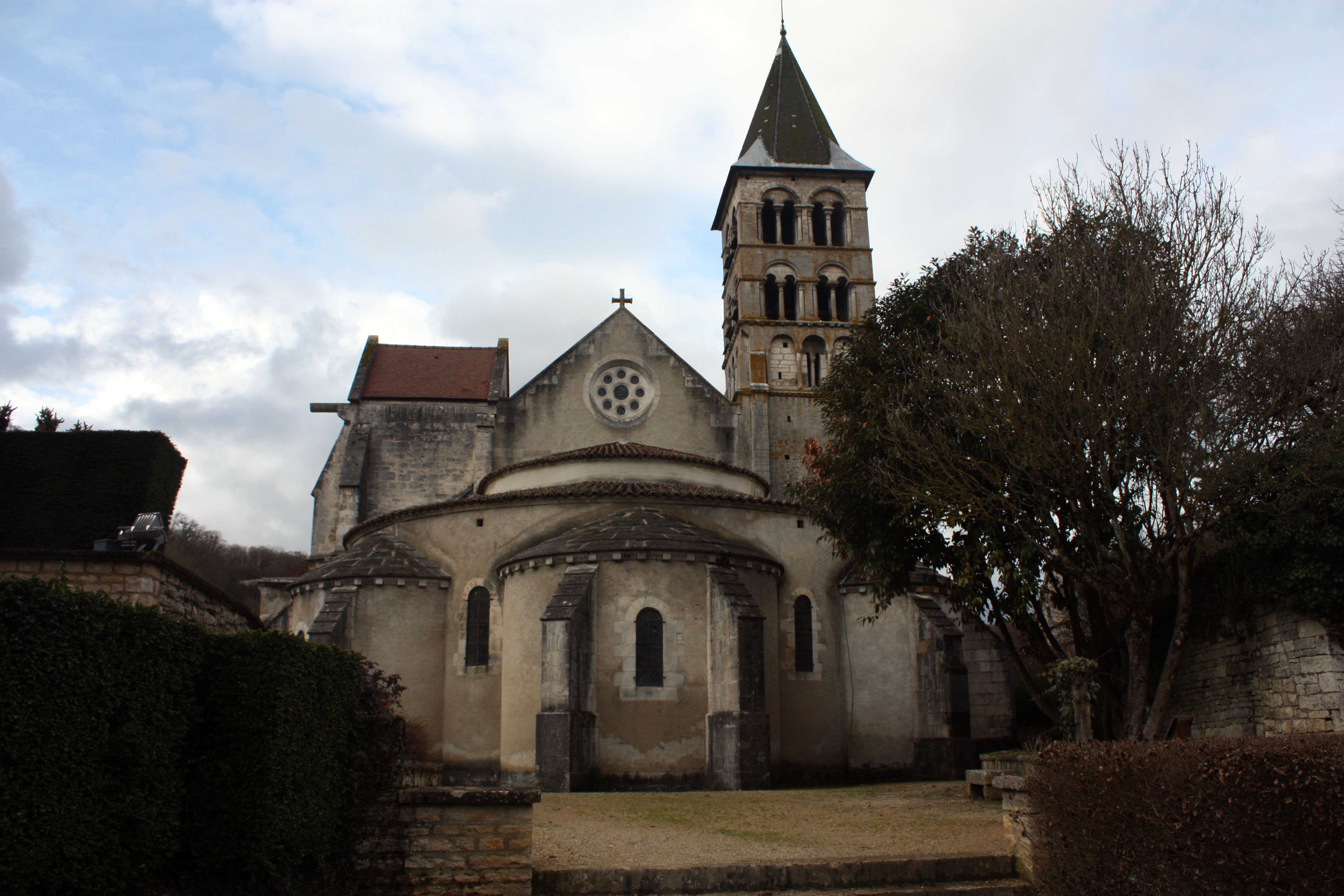 Apse of the St. Stephan's Church, view from the garden.